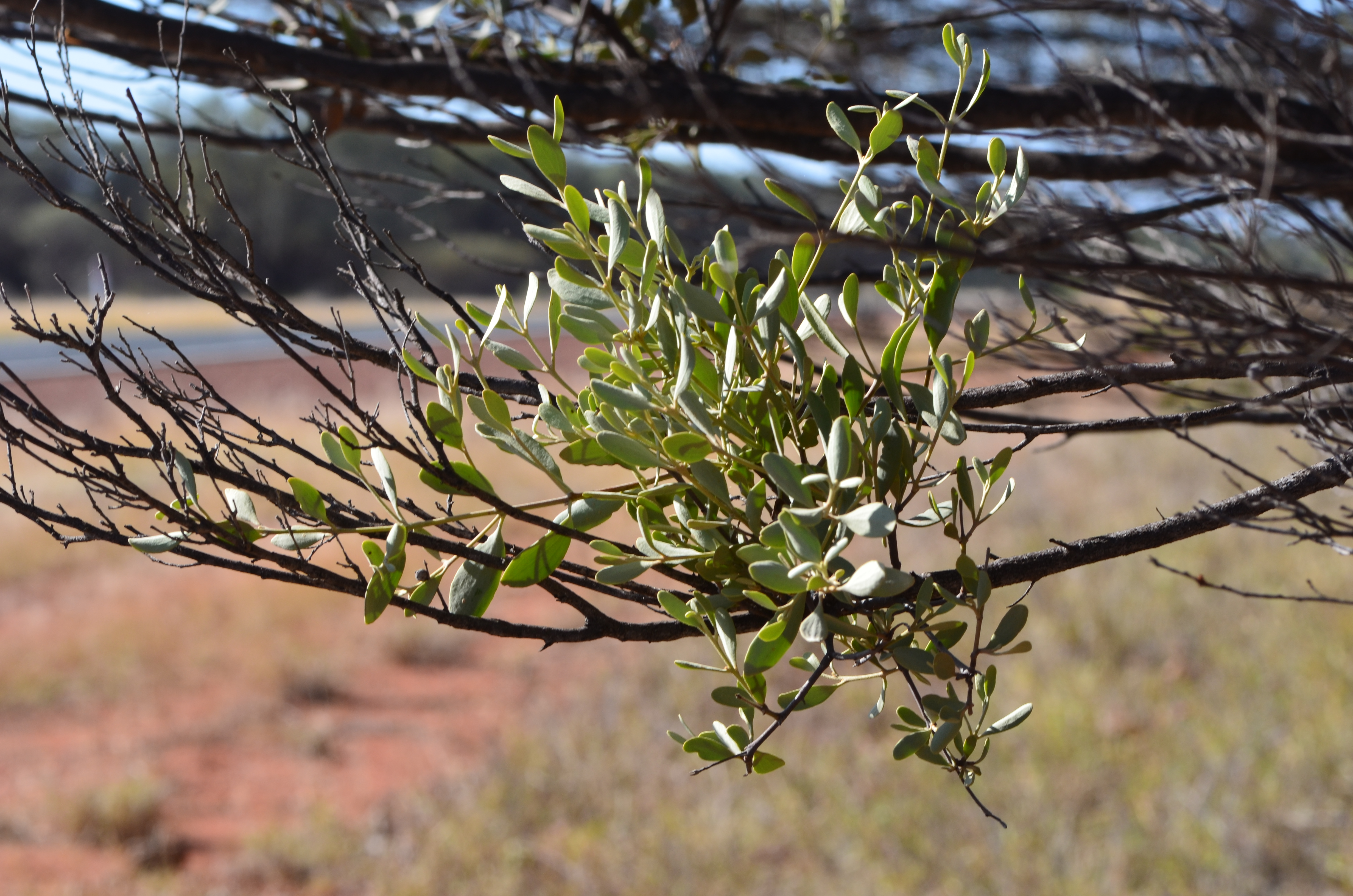 Mistletoe, Amyema maidenii subsp. maidenii. On the Bourke-Cunnamulla road before the turnoff to Ledknapper Nature Reserve (NSW). In a mulga, Acacia aneura.